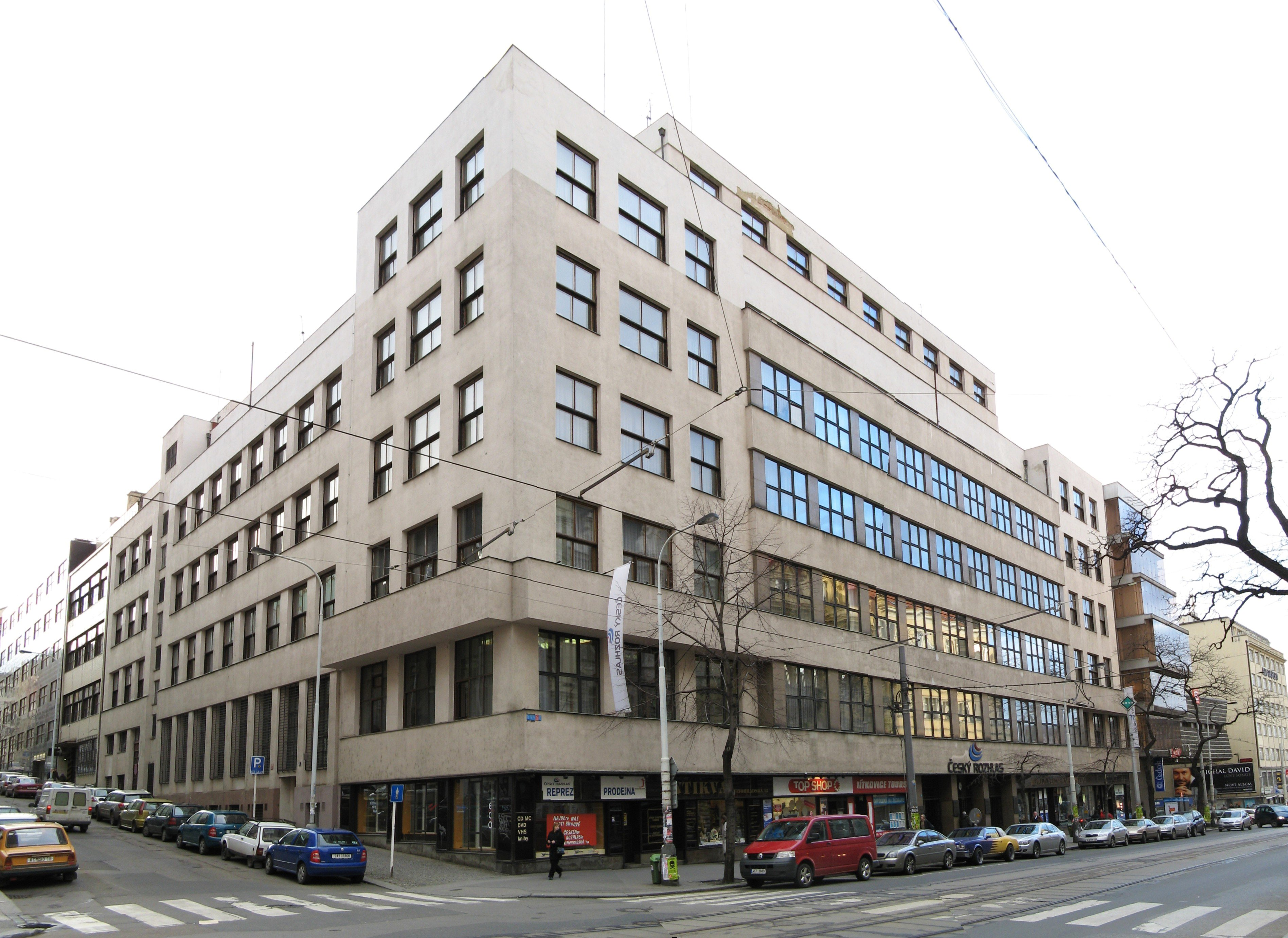 Building of the Czech public radio "Český rozhlas" (Czech Radio), Vinohradská street in Prague